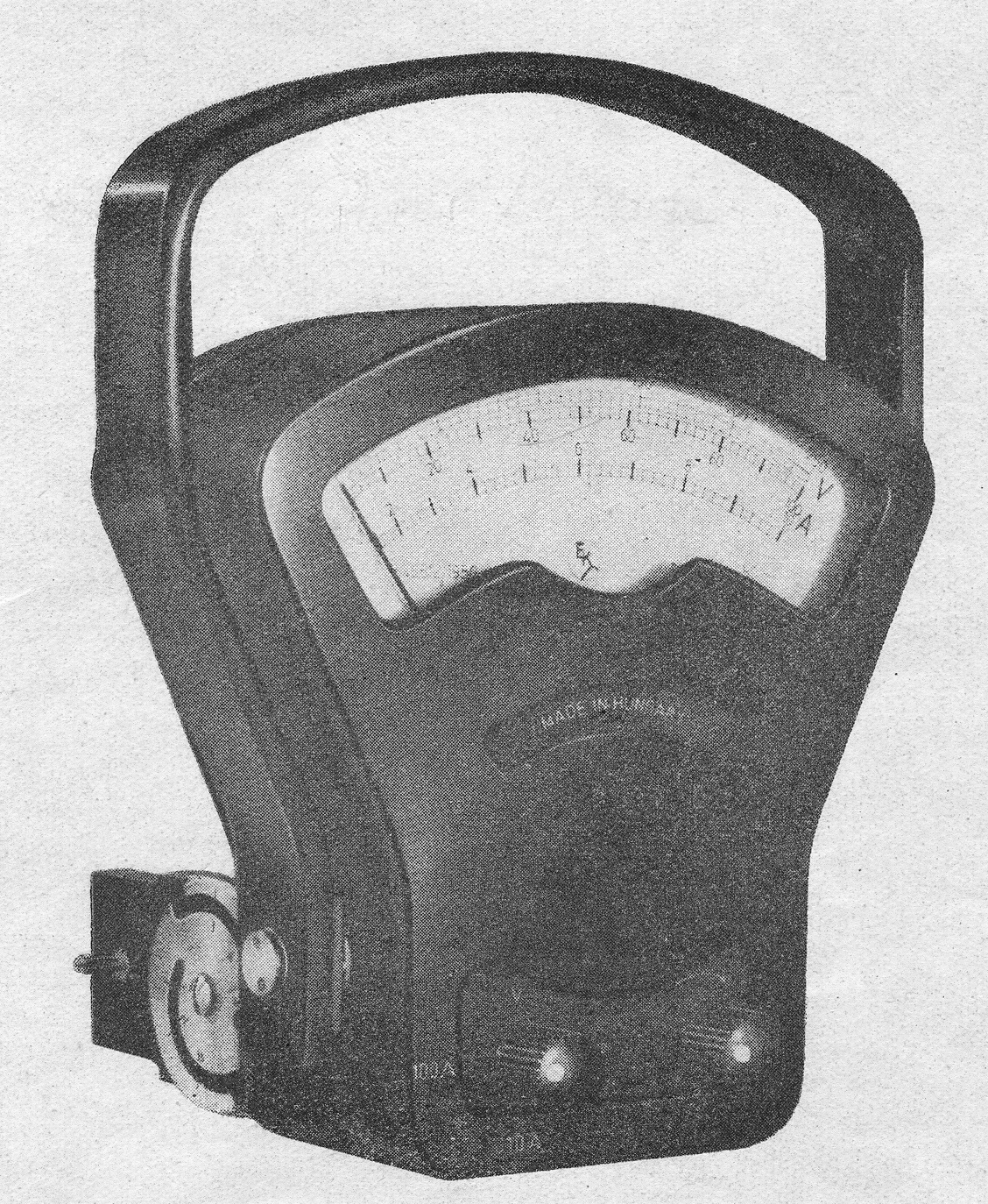 Current transformer. System:Reich